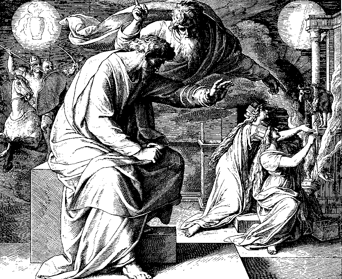 Woodcut for "Die Bibel in Bildern", 1860.